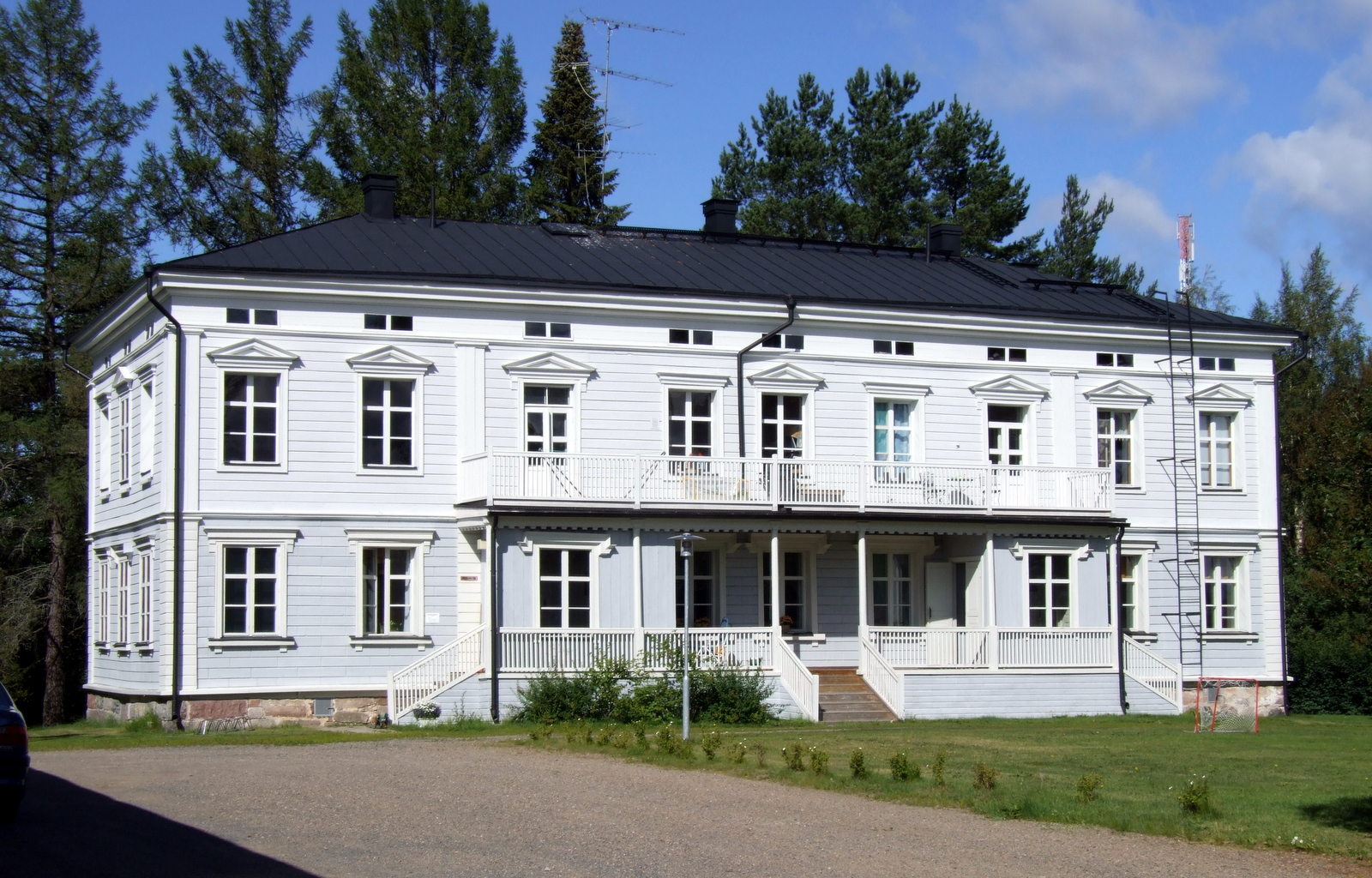 The rectory of Liminka, Finland, was built in the middle of 19th century